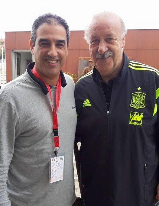 Hicham Jadrane with Spanish Coach Vicente Del Bosque at 2nd UEFA License Formation. ;Spanish Football Association, Las Rozas